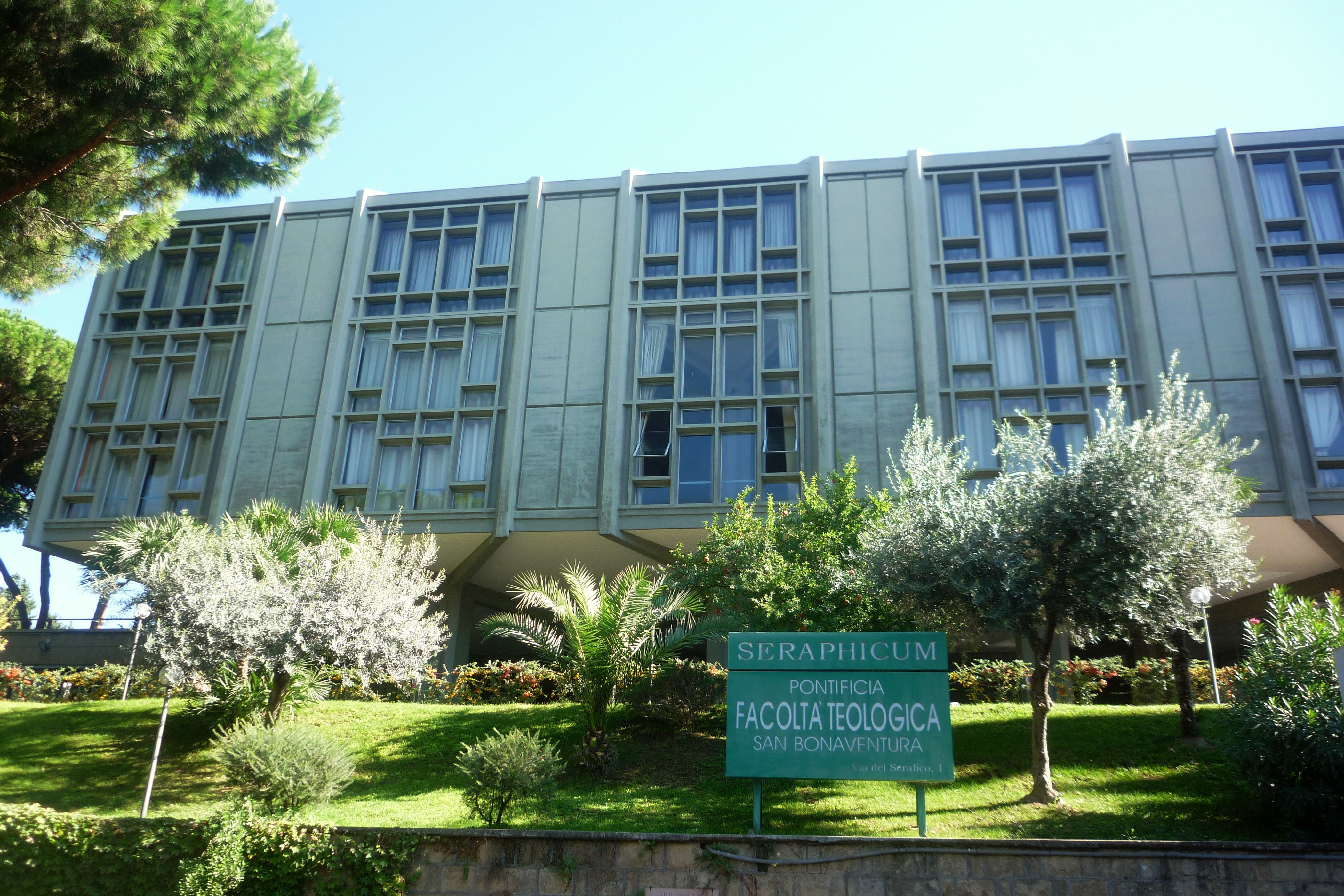 Rome, Pontifical College of Theology 'St. Bonaventure'